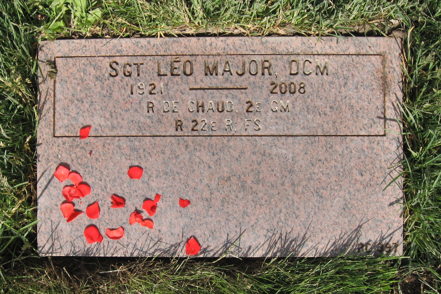 Headstone of Leo Major located at the National Field of Honor of the Last Post Fund in Pointe-Claire, Quebec, Canada. Leo Major, Distinguished Conduct Medal 1921-2008 Régiment de la Chaudière, Second World War Royal 22nd Regiment, Special Force Location in the cemetery: PC 397